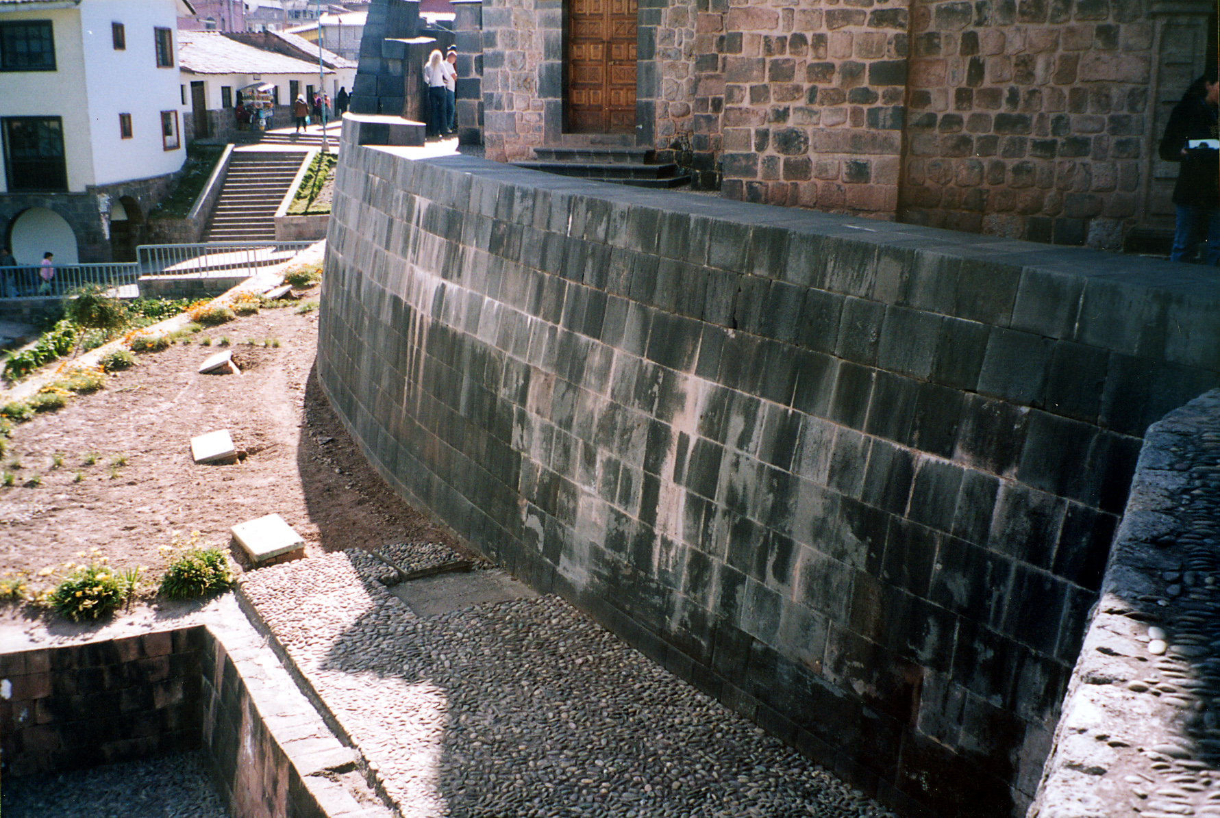 Curved base wall of the Solar Temple Inti-Huasi/Coricancha, Convento Santo Domingo, Cusco, Peru.